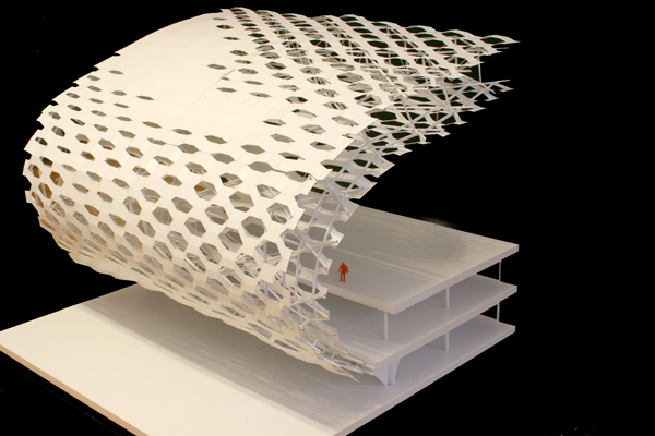 photography of physical model: parametric developed stucture and facade